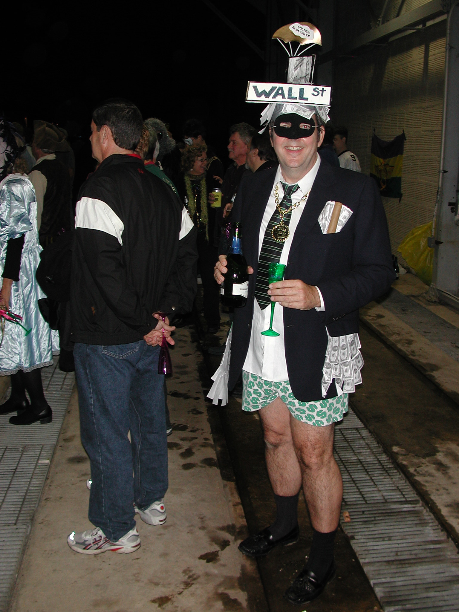 New Orleans: Costumed reveler with the Phunny Phorty Phellows carnival organization satirizing Wall Street and economic problems, at the Canal Street Car Barn in Mid-City.